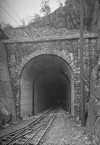 Kvineshei Tunnel, western entrance during construction